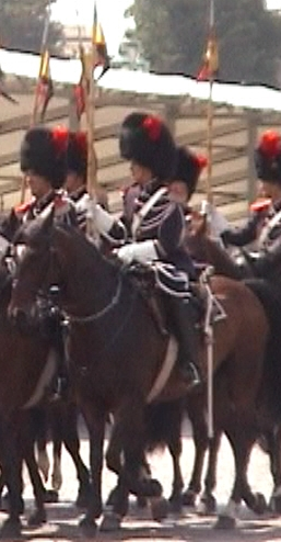 Belgian Royal Escort (horse)